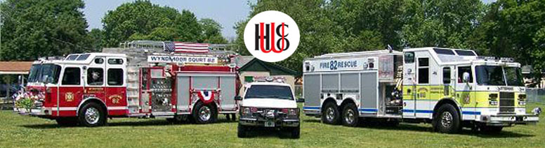 Wyndmoor Hose Company website header